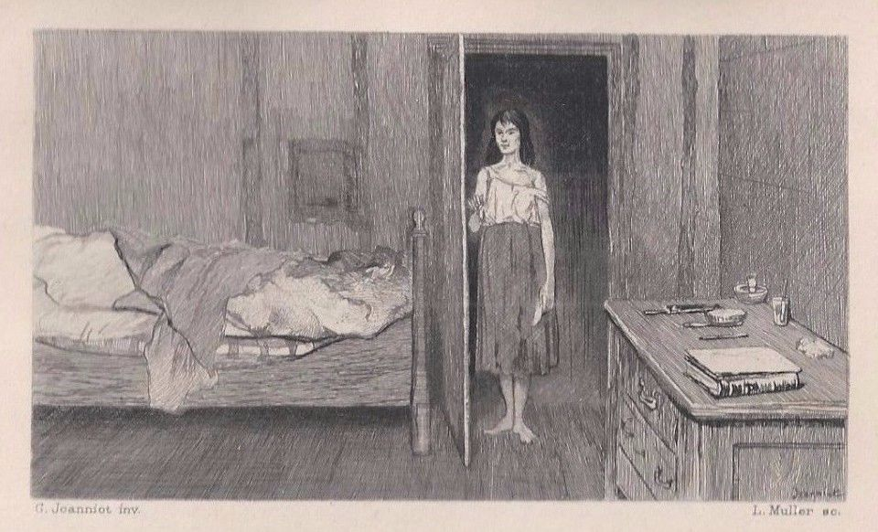 Eponine, character by Les Misérables.